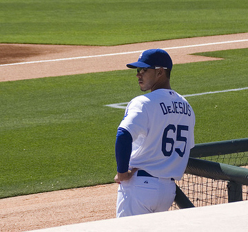 Ivan DeJesus Jr. in the Dodger dugout